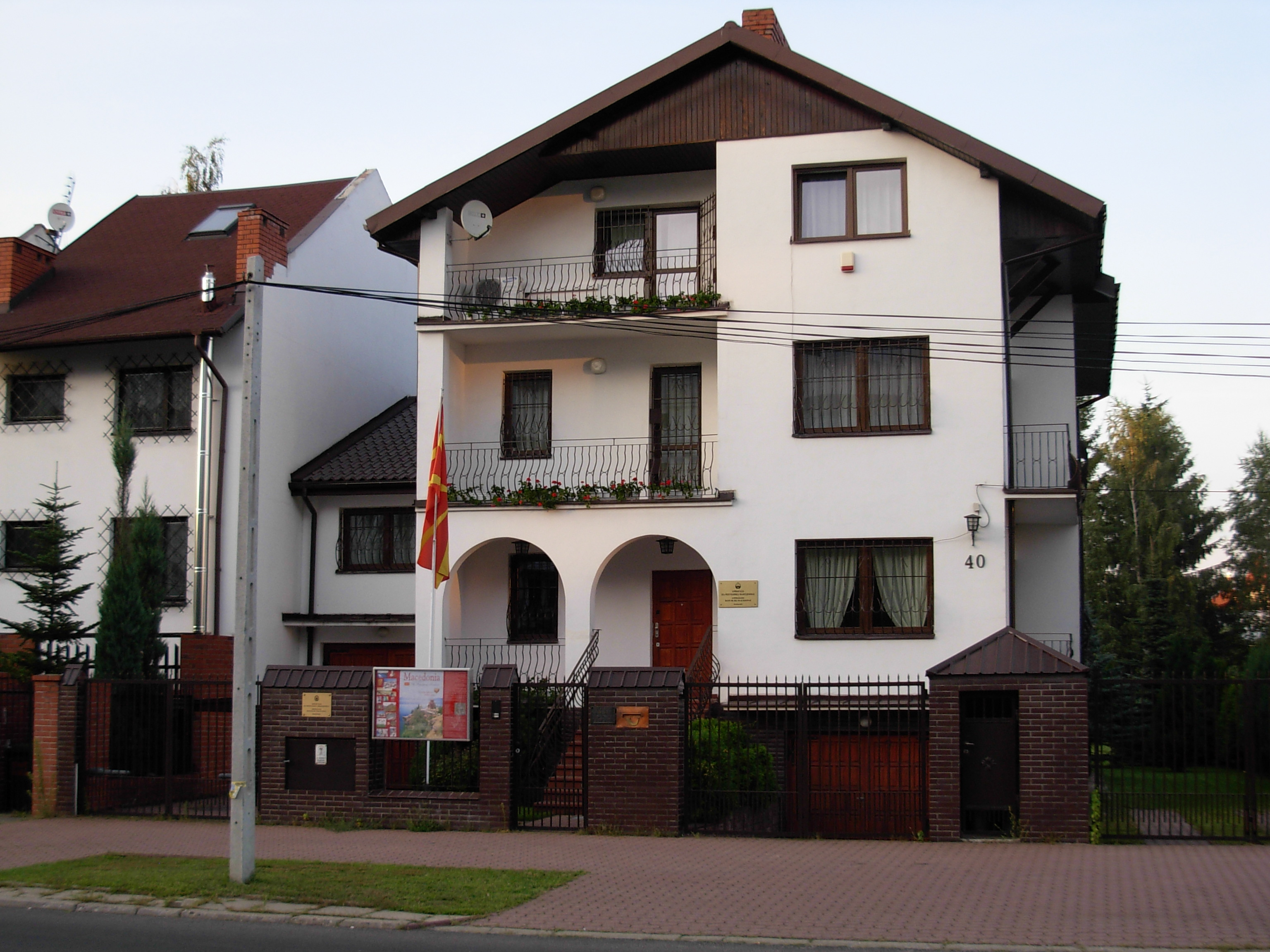 Embassy of The Republic of Macedonia in Warsaw